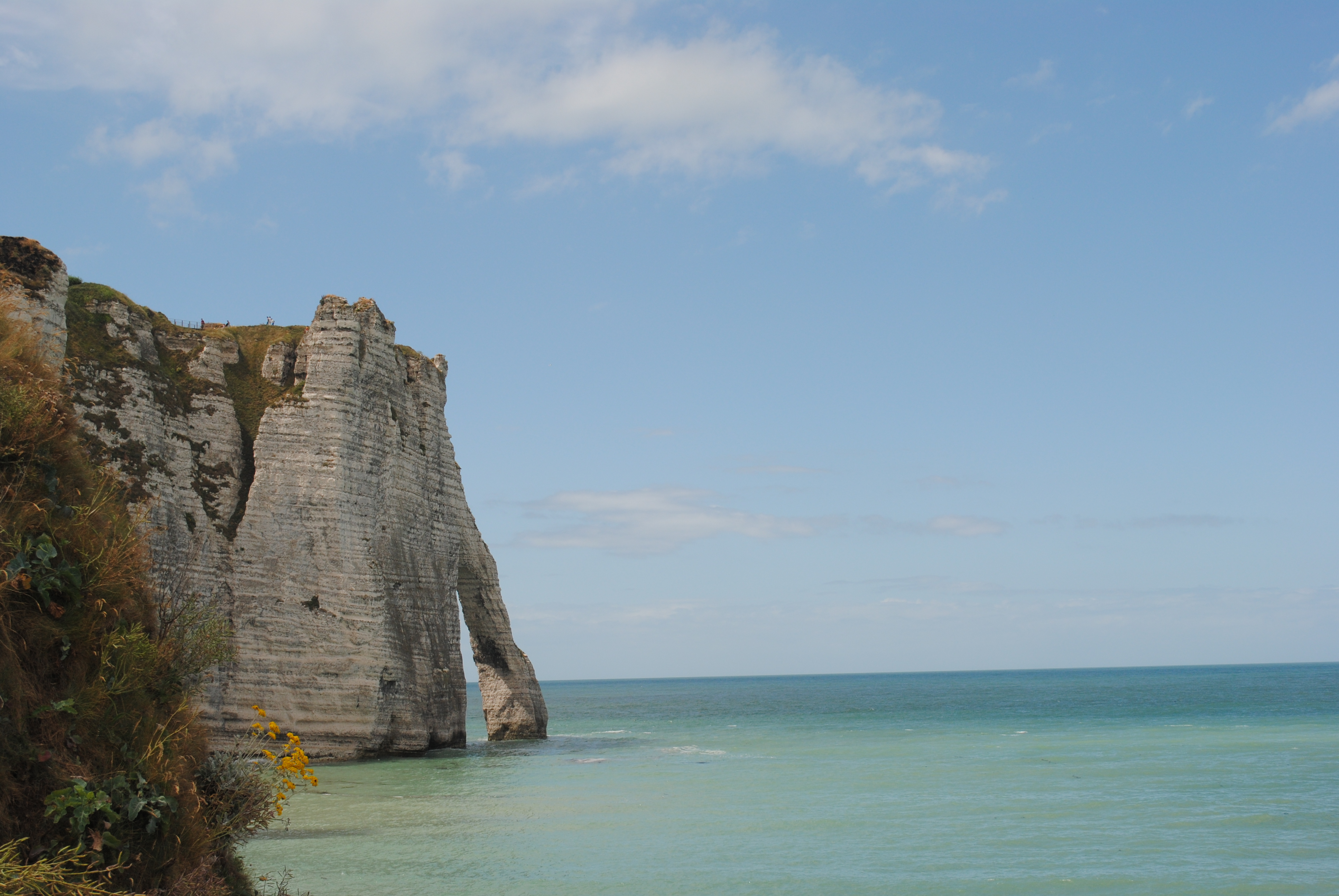 The cliffs of Etretat in Summertime